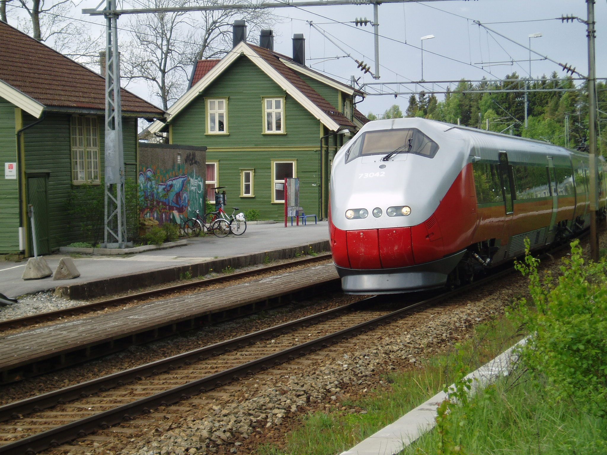 Train station in Råde, Norway with NSB Type 73. Photo by JohnM 13:49, 25 May 2006 (UTC).